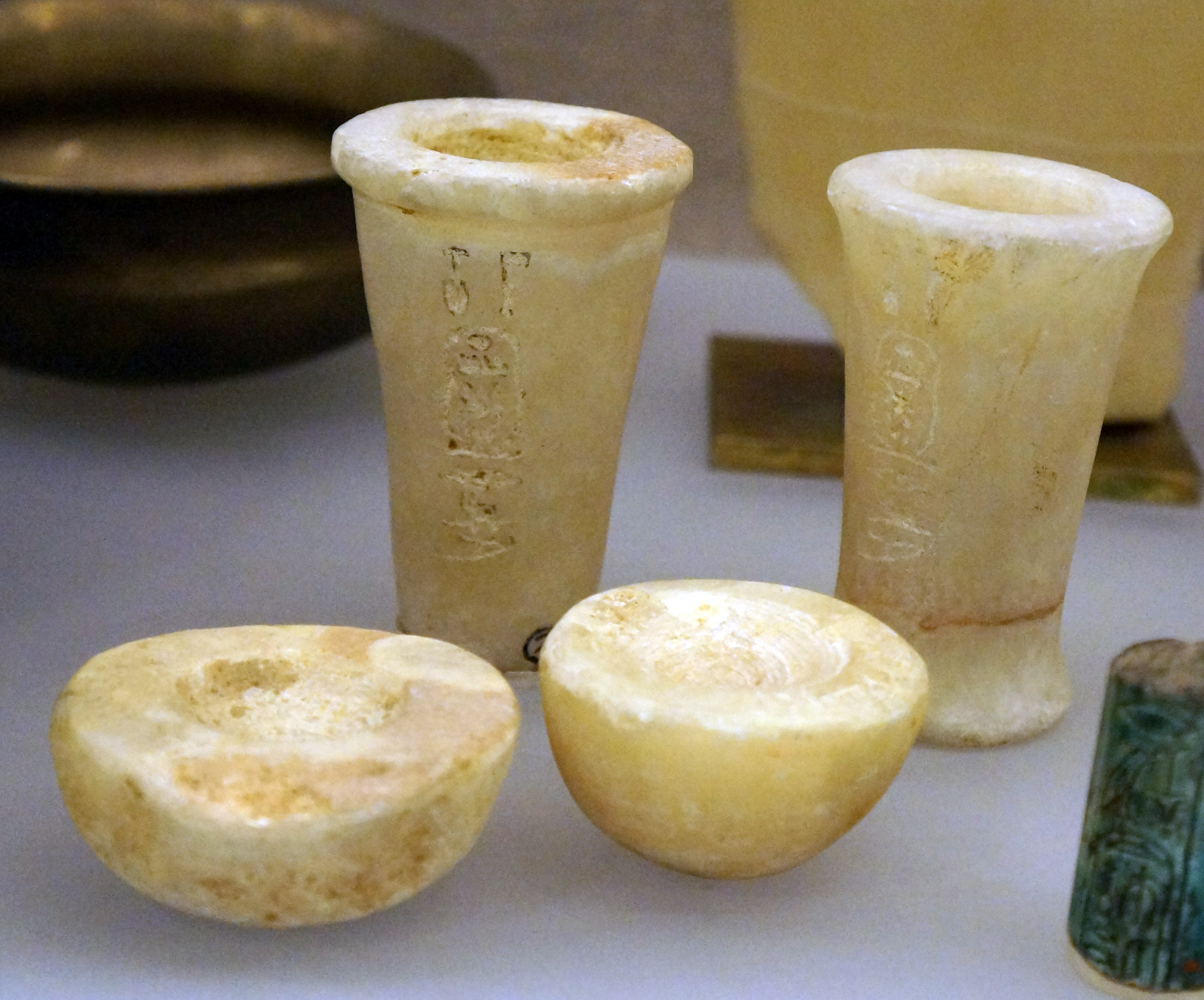 Model, vase, Thutmose IV, KV 43